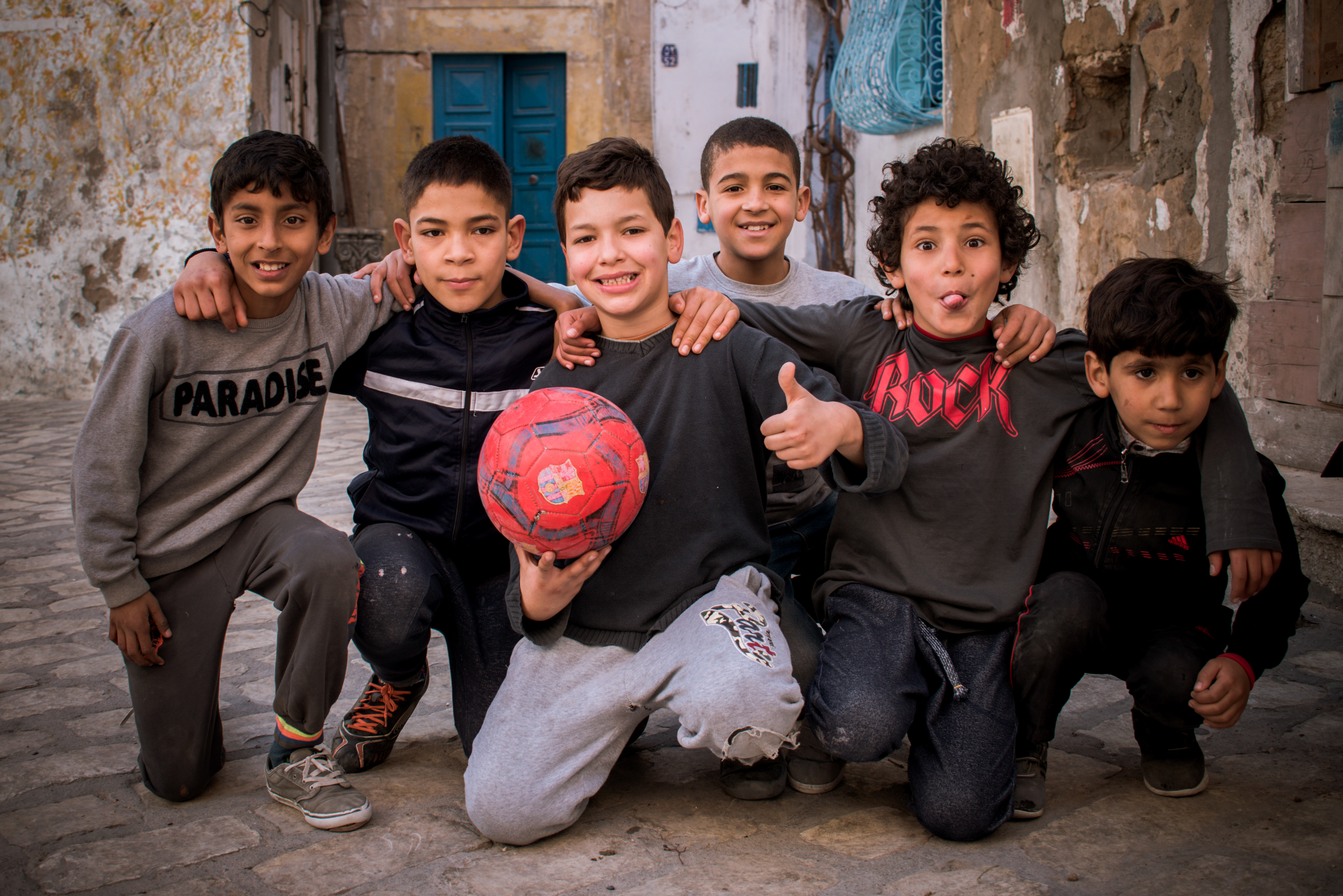 I was hanging around in the alleys of the old city of Sousse, Tunisia when I came across these kids playing football in their neighbourhood, After taking some photographs while playing, they posed in front of me and asked to take a photograph. This is an image with the theme "Play" from: Tunisia